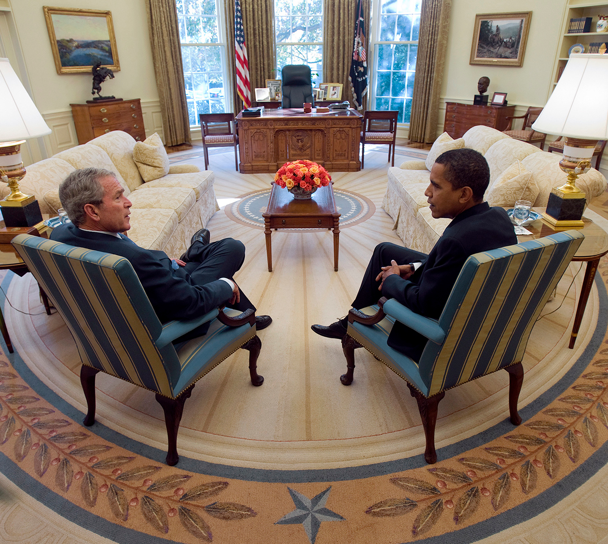 President George W. Bush and President-elect Barack Obama meet in the Oval Office of the White House Monday, November 10, 2008.